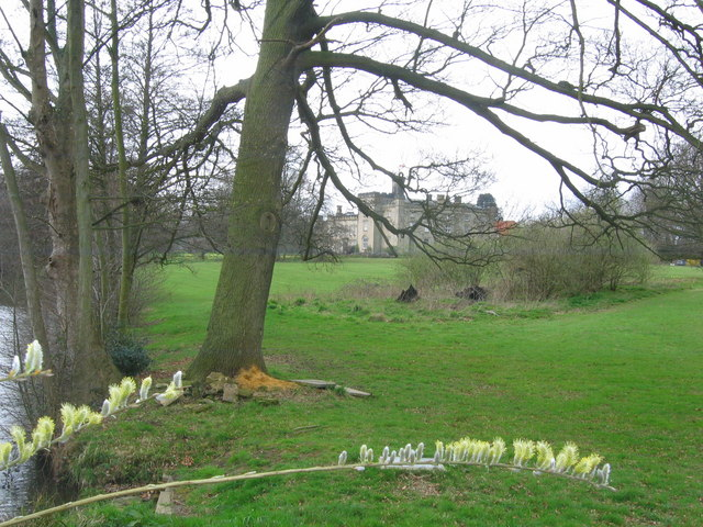 Chiddingstone Castle